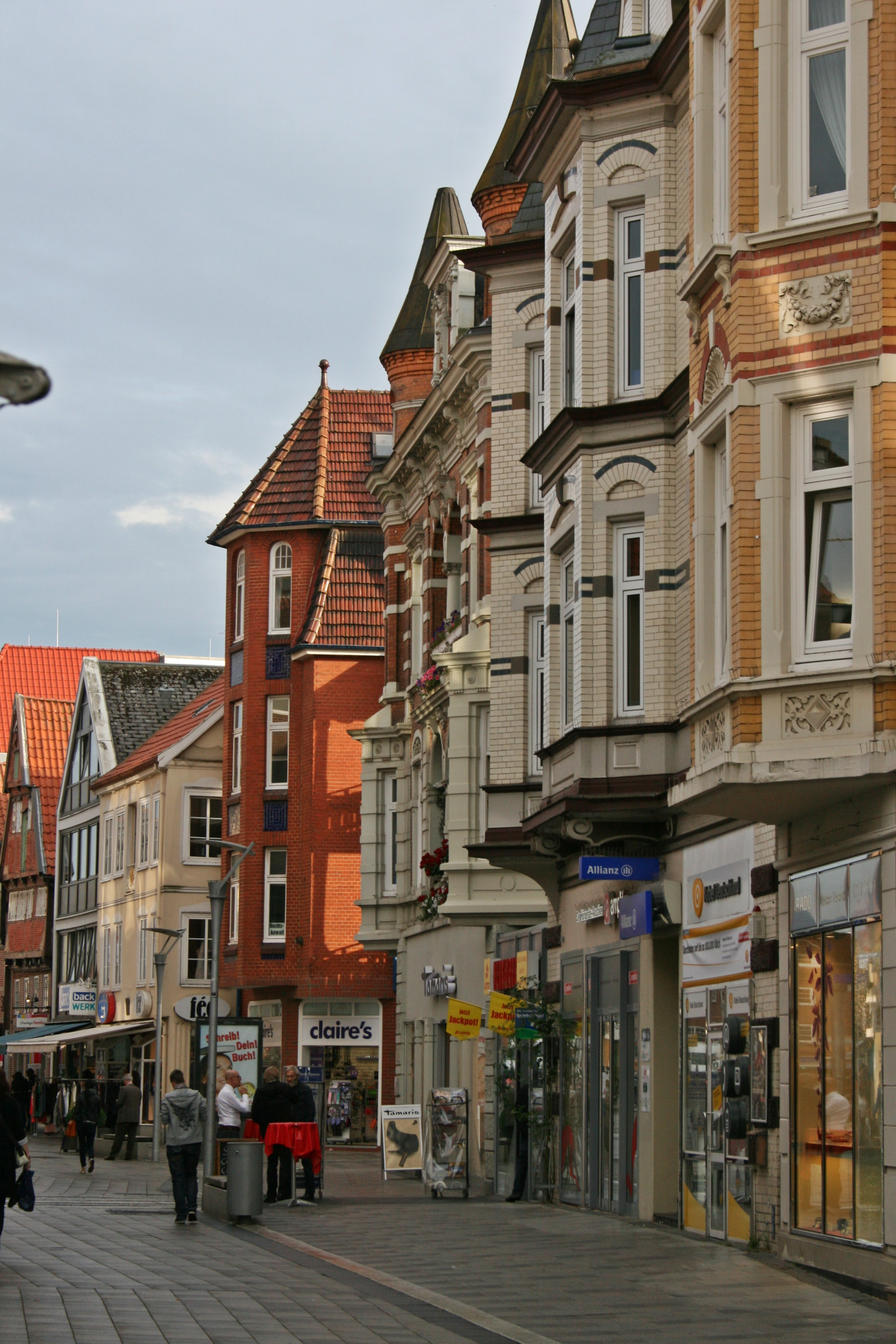 Hamburg-Bergedorf, Sachsentor. In front of the house Sachsentor 38 there are Stolpersteine for Naftali (Theodor) Lewensohn and Irma Friedländer